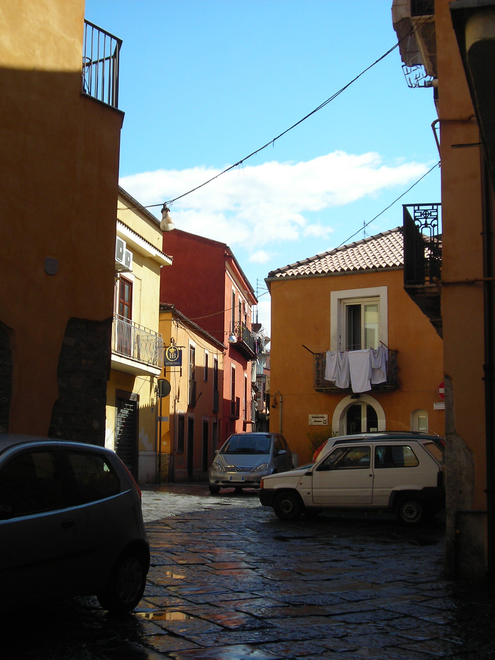 Benevento: a street in the Middle Ages district of Triggio